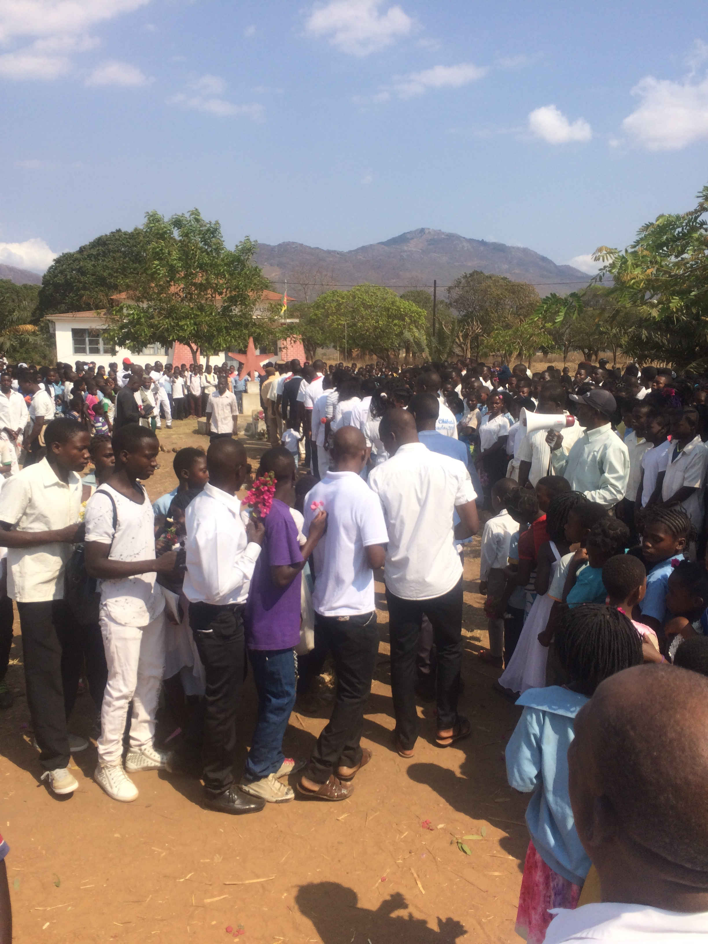 Lioma, Zambezia, Moçambique. In the plaza putting flowers on the monument to celebrate Dia da Paz. This is an image of "African people at work" from Mozambique